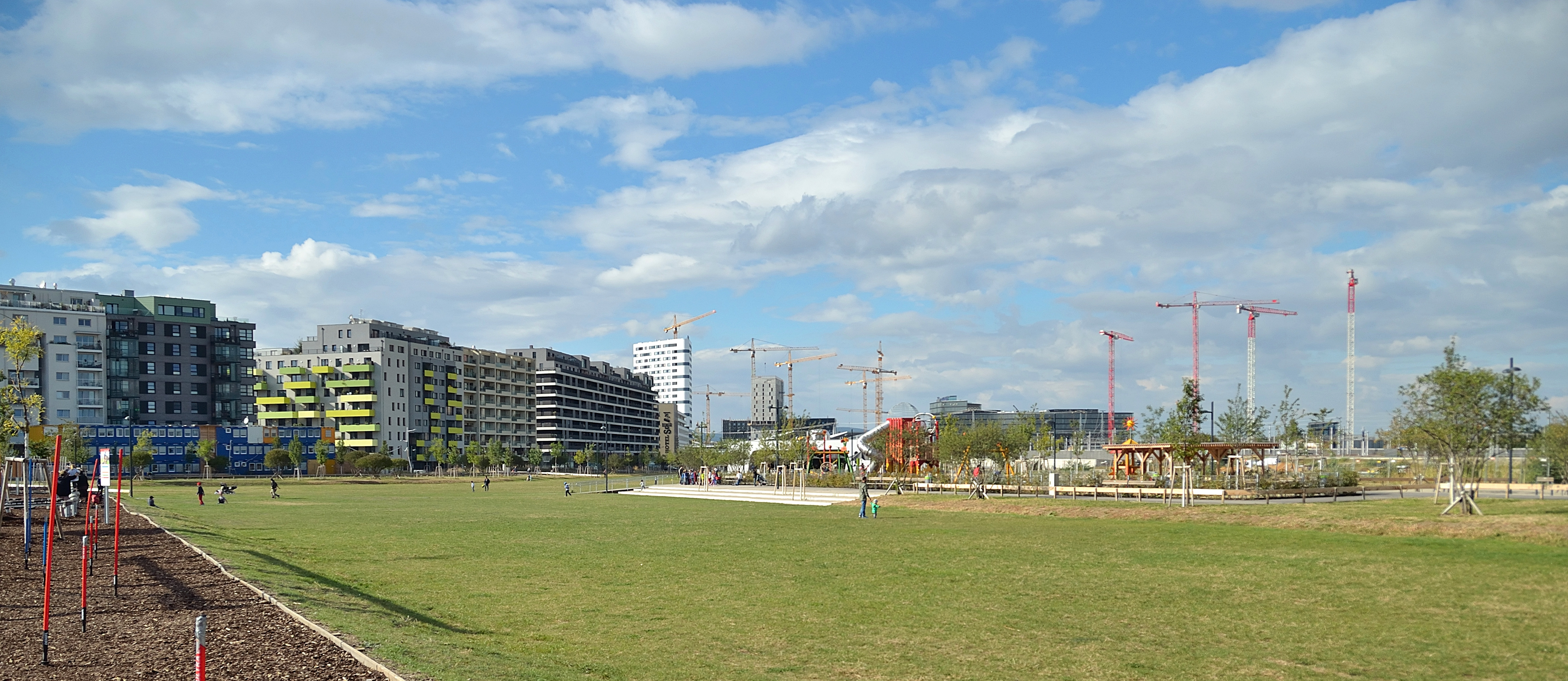 Helmut-Zilk-Park in Favoriten, Vienna, is a park built 2015 to 2017 on the area of former Südbahnhof, now called Sonnwendviertel.